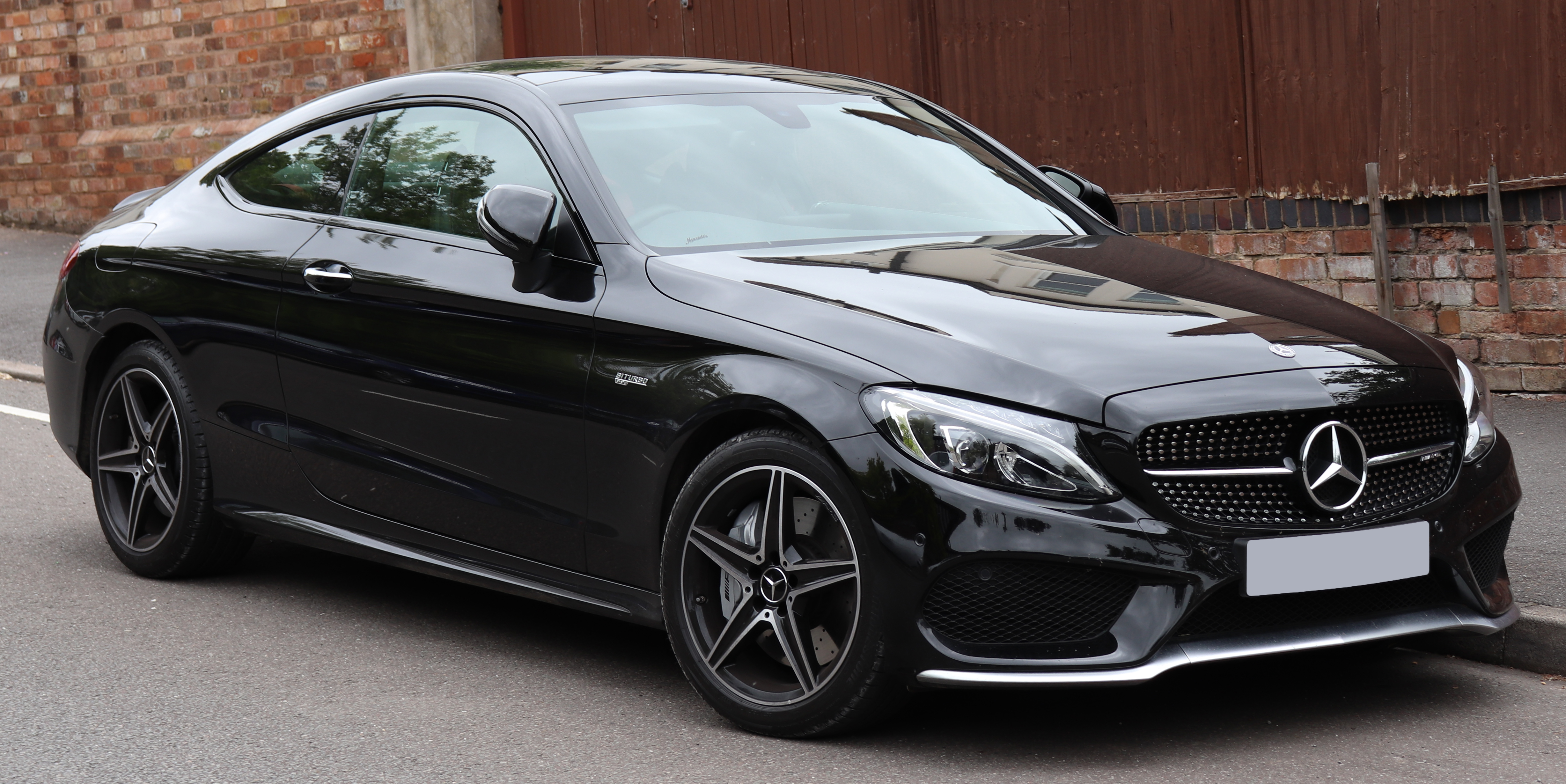 2018 Mercedes-AMG C 43 Premium 4MATIC Automatic 3.0 Front Taken in Leamington Spa